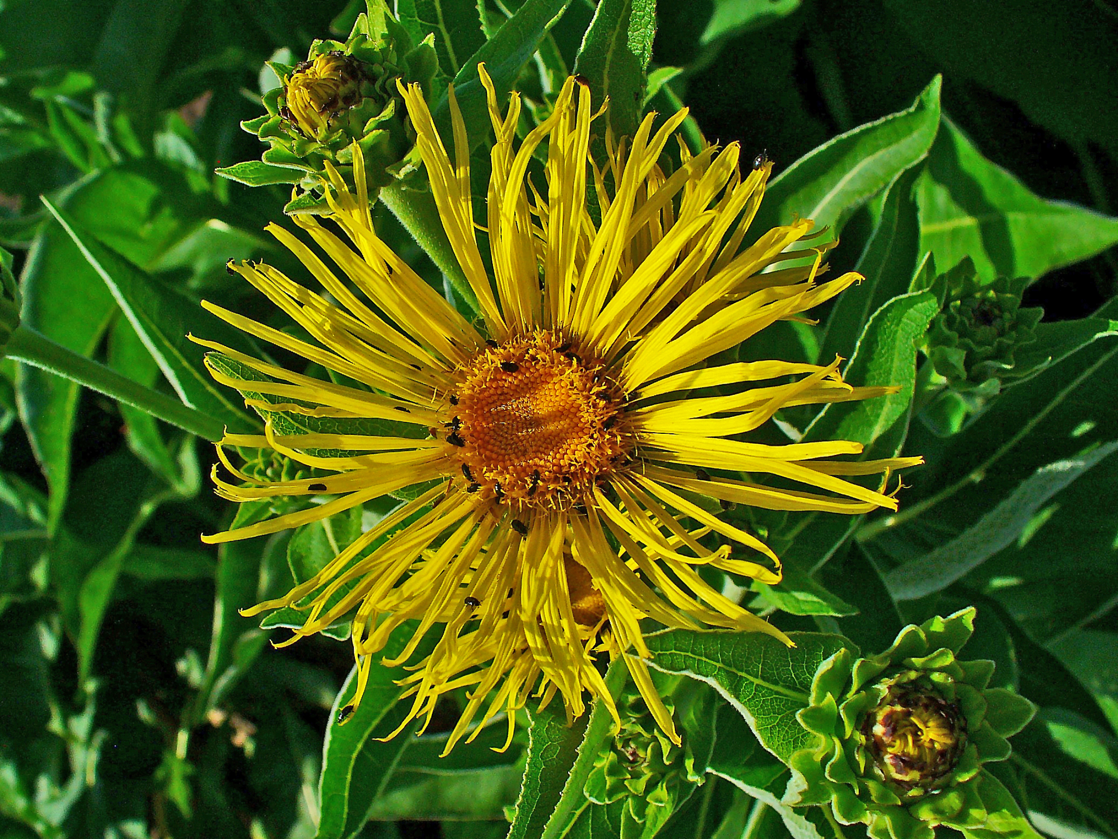 Inula helenium, Asteraceae, Elecampane, Horse-heal, Marchalan, inflorescence. The fresh roots collected in autumn are used in homeopathy as remedy: Inula helenium (Inul.)